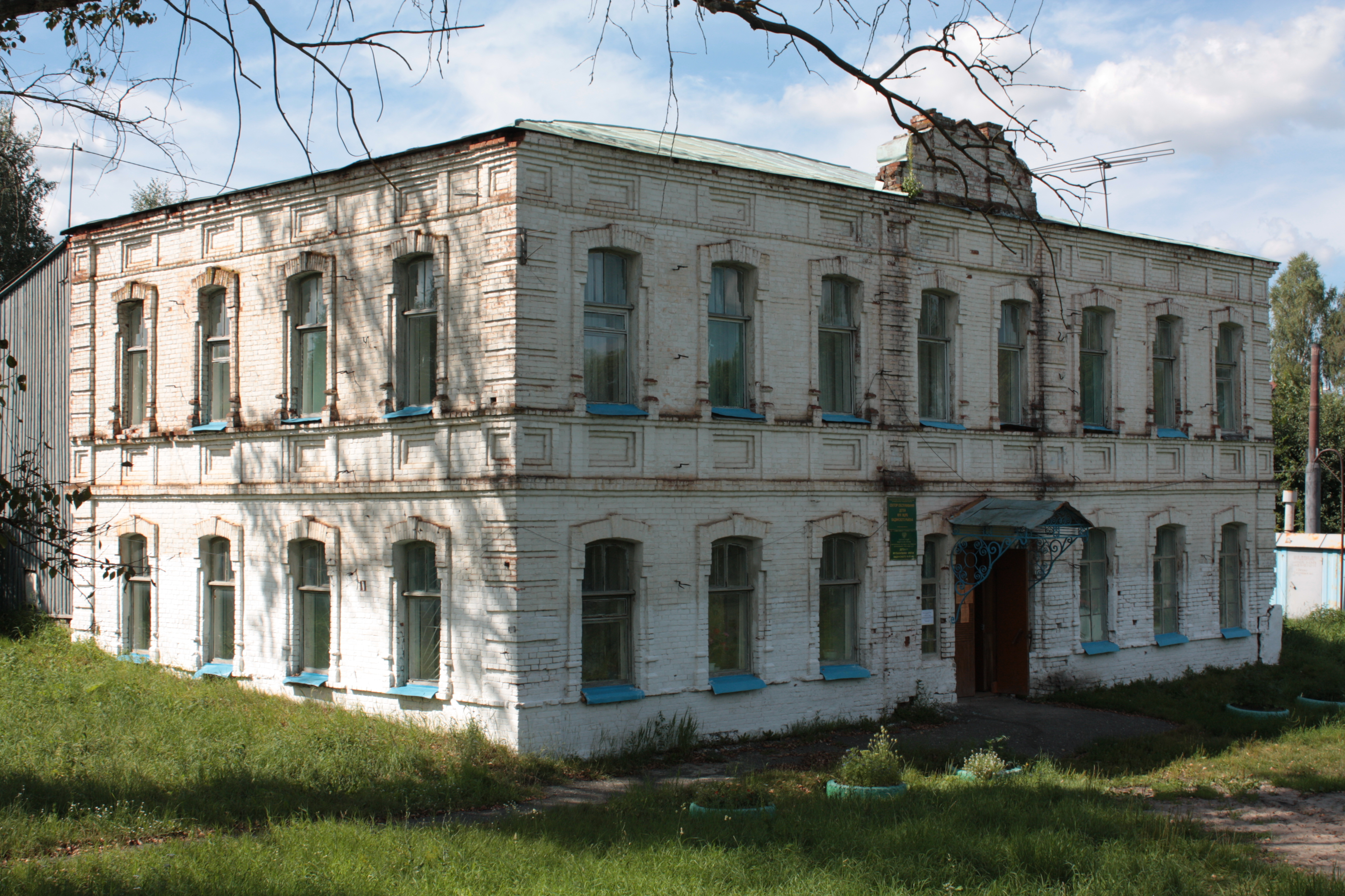 Music school in Vadinsk